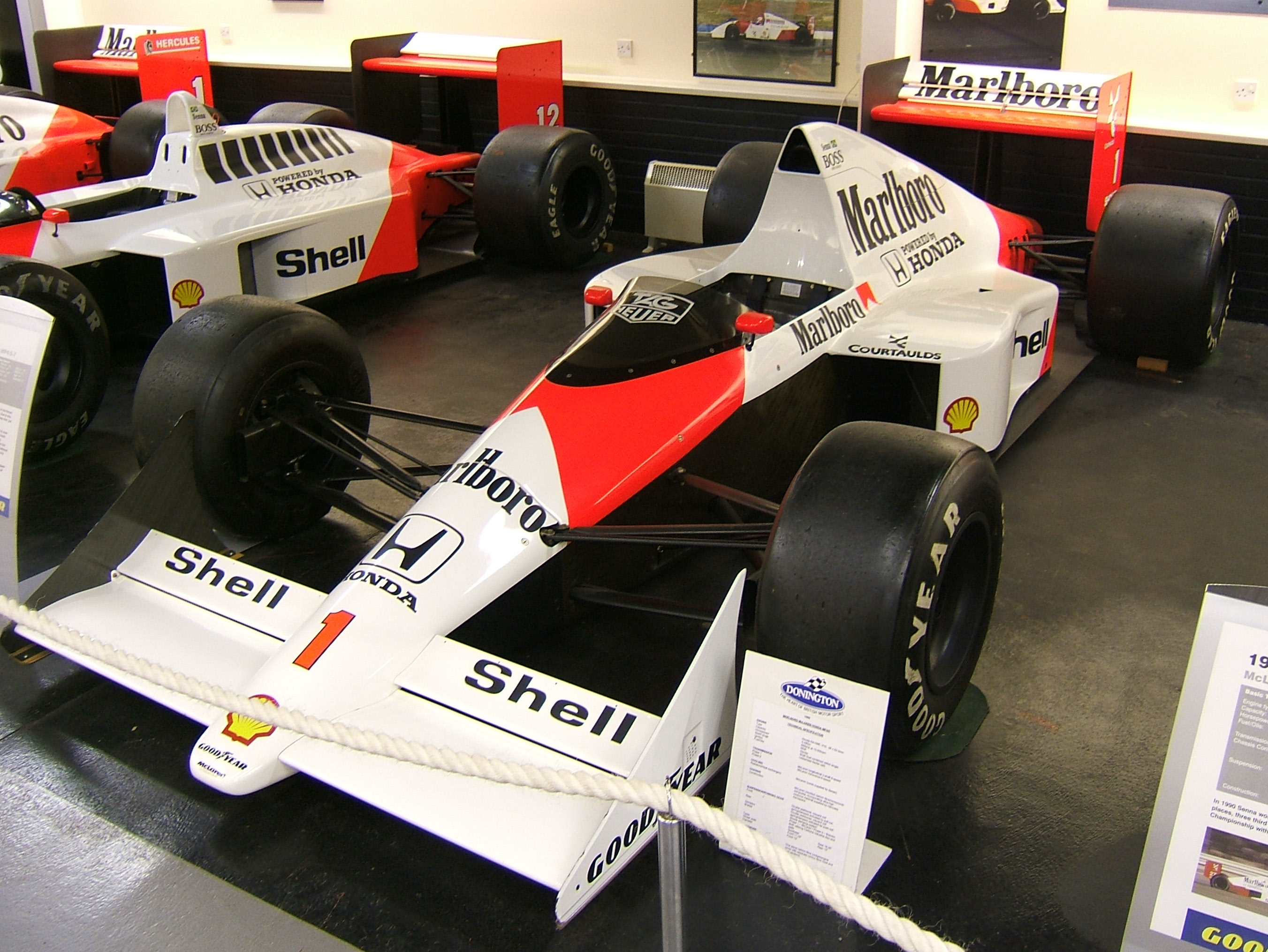 McLaren MP4/5. In the Donington Grand Prix Collection museum, Leics., UK.